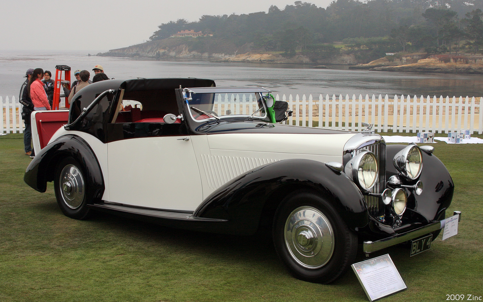 Pebble Beach Concours dElegance, Aug 16, 2009